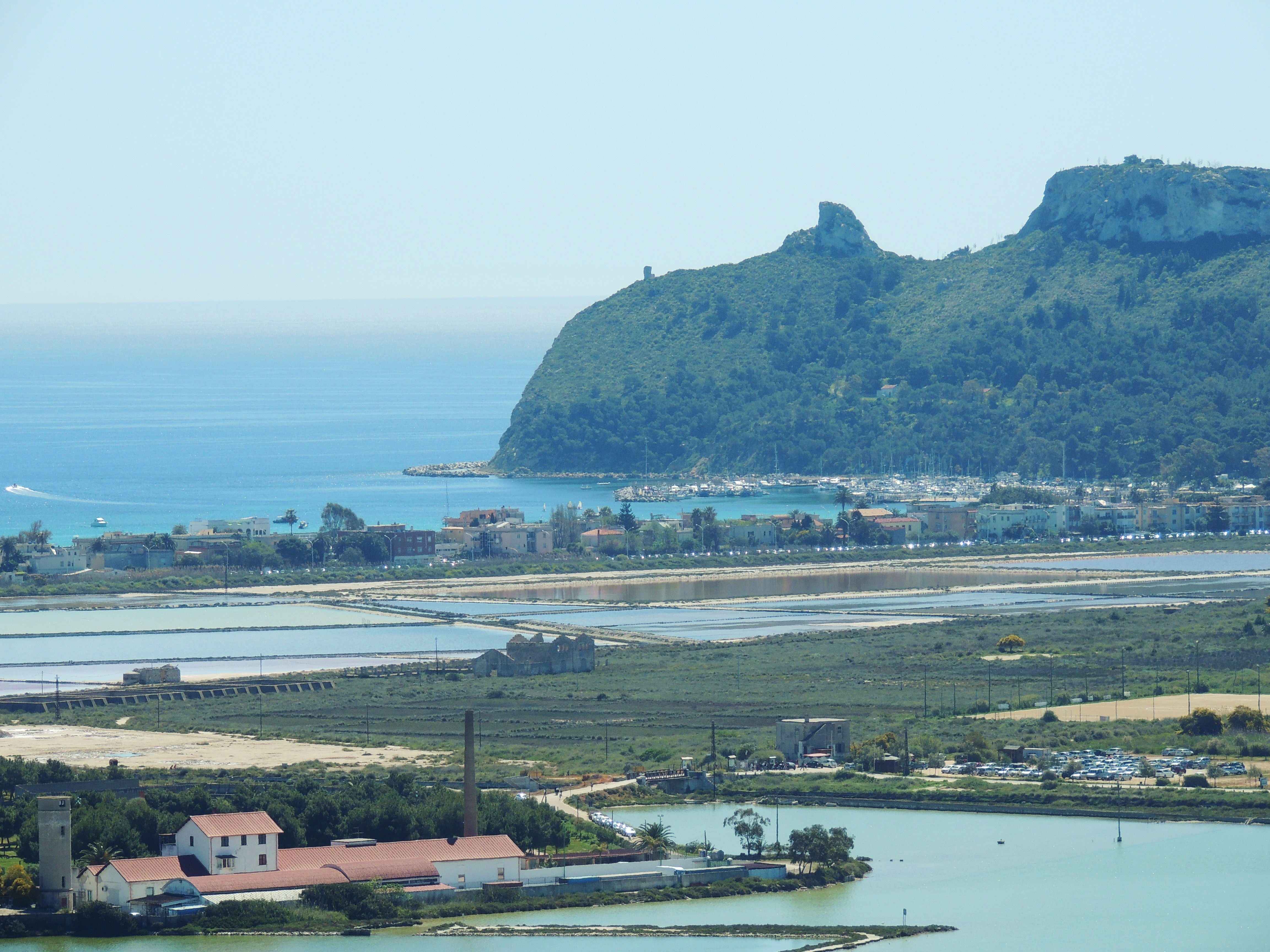 Cagliari, Davil's Saddle, Poetto, Is Molentargius